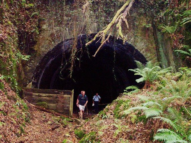 Kilpatrick Tunnel east portal, Inishannon, Co.Cork. After negotiating a rock cutting south of Upton, the Cork Bandon & South Coast Railway bridged the Brinny River passed through the short Kilpatrick Tunnel and bridged the Bandon River. This is the east portal of the tunnel. This main line 5'3" gauge railway ran from Cork (Albert Quay) to Bantry. There were a number of branch lines, to Kinsale (closed in the 1930s), to Skibbereen & Baltimore, to Clonakilty & Courtmacsherry and to Kinsale). There was also a narrow gauge connection from Skibbereen to Schull which closed in the 1940s. The rest of the network closed in March 1961 despite much opposition and acrimony and despite previous political promises to the contrary. The loss is still felt today.